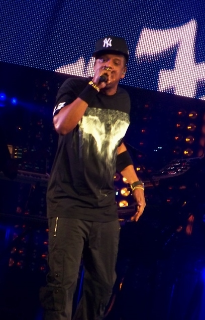 Jay-Z performing at Staples Center on December 11, 2011 in Los Angeles on the Watch the Throne Tour.